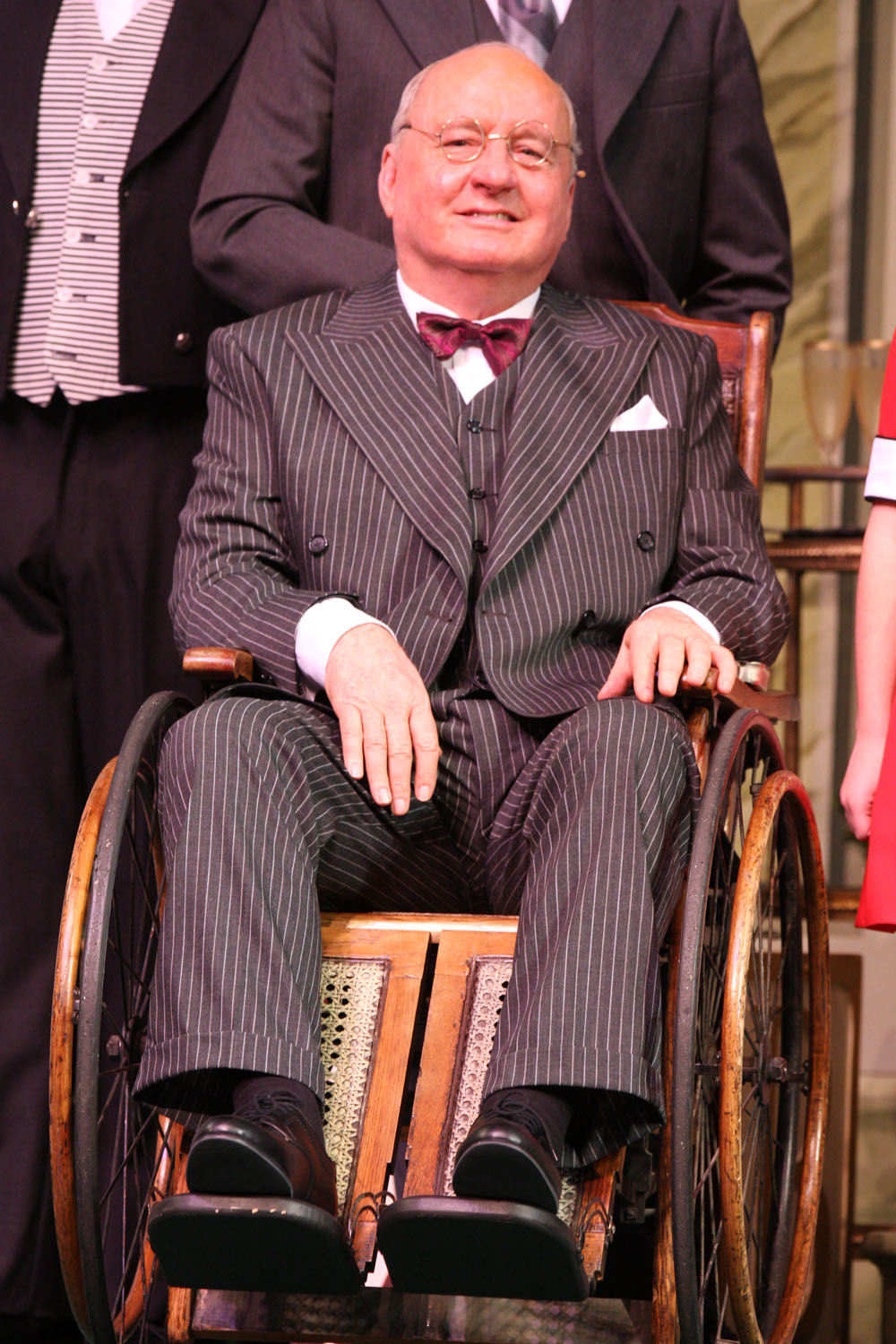 Alan Jones joining the cast of Annie The Musical at Lyric Theatre